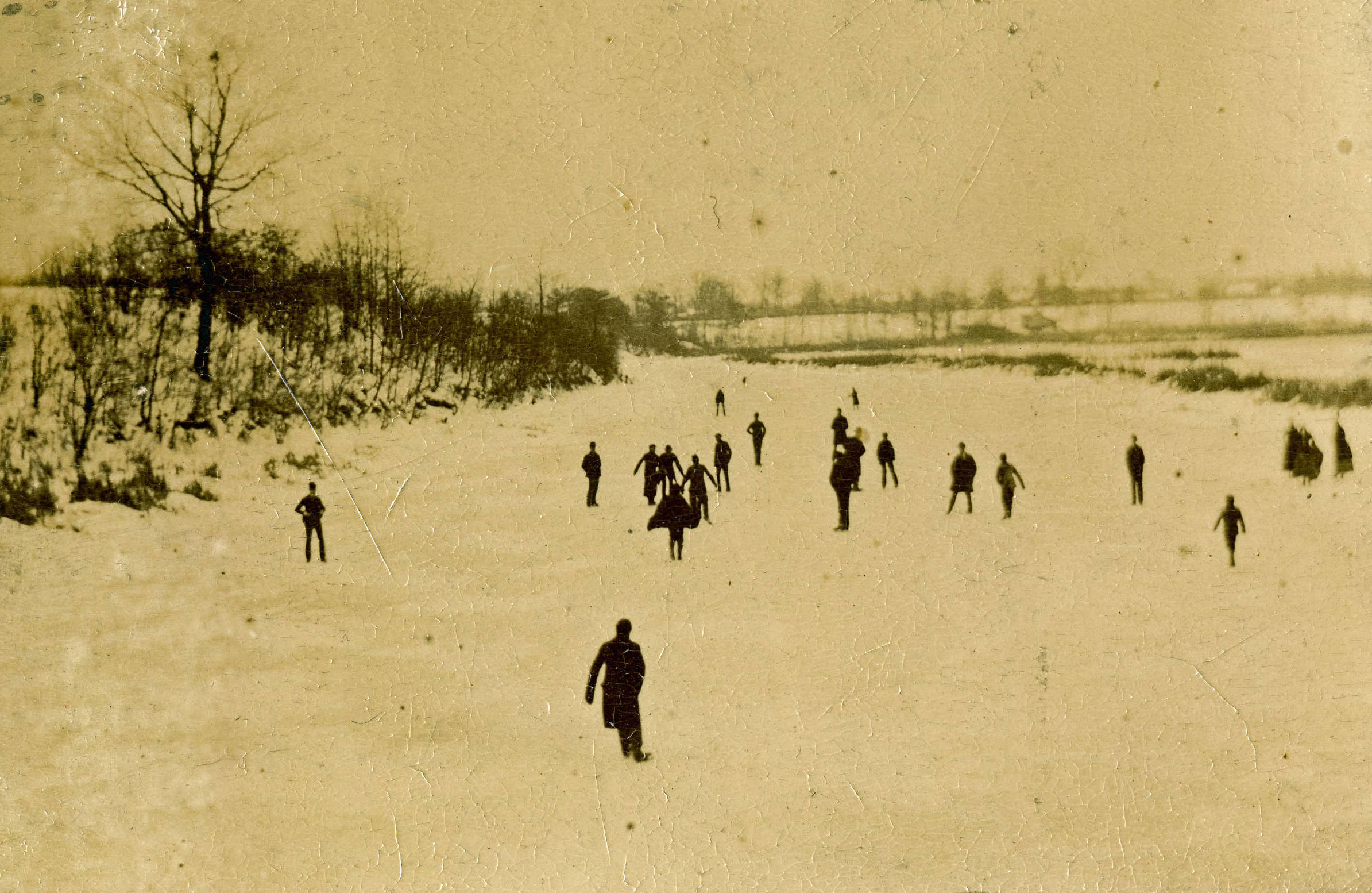 Miss Julia Jay Coon was a notable Toledo photographer, active around 1890. Miss Coon's work mostly consisted of portraits and scenes in and around Toledo, Ohio. She worked out of her parent's, Julius and Nancy Coon, home at 313 Floyd Street in the Old West end area of Toledo. Julia Jay Coon was born in Toledo on May 28, 1871. She married Edward Riddle on December 20, 1892. After her marriage, the U. S. Census reports state her occupation as "housewife" By the 1910 census, Julia and Edward had two children, Newlin J. Riddle and Courtney Riddle. Julia died December 2, 1940 and is buried in Toledo's Woodlawn Cemetery.